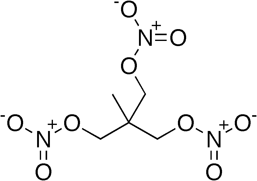 chemical structure of trimethylolethane trinitrate (TMETN)